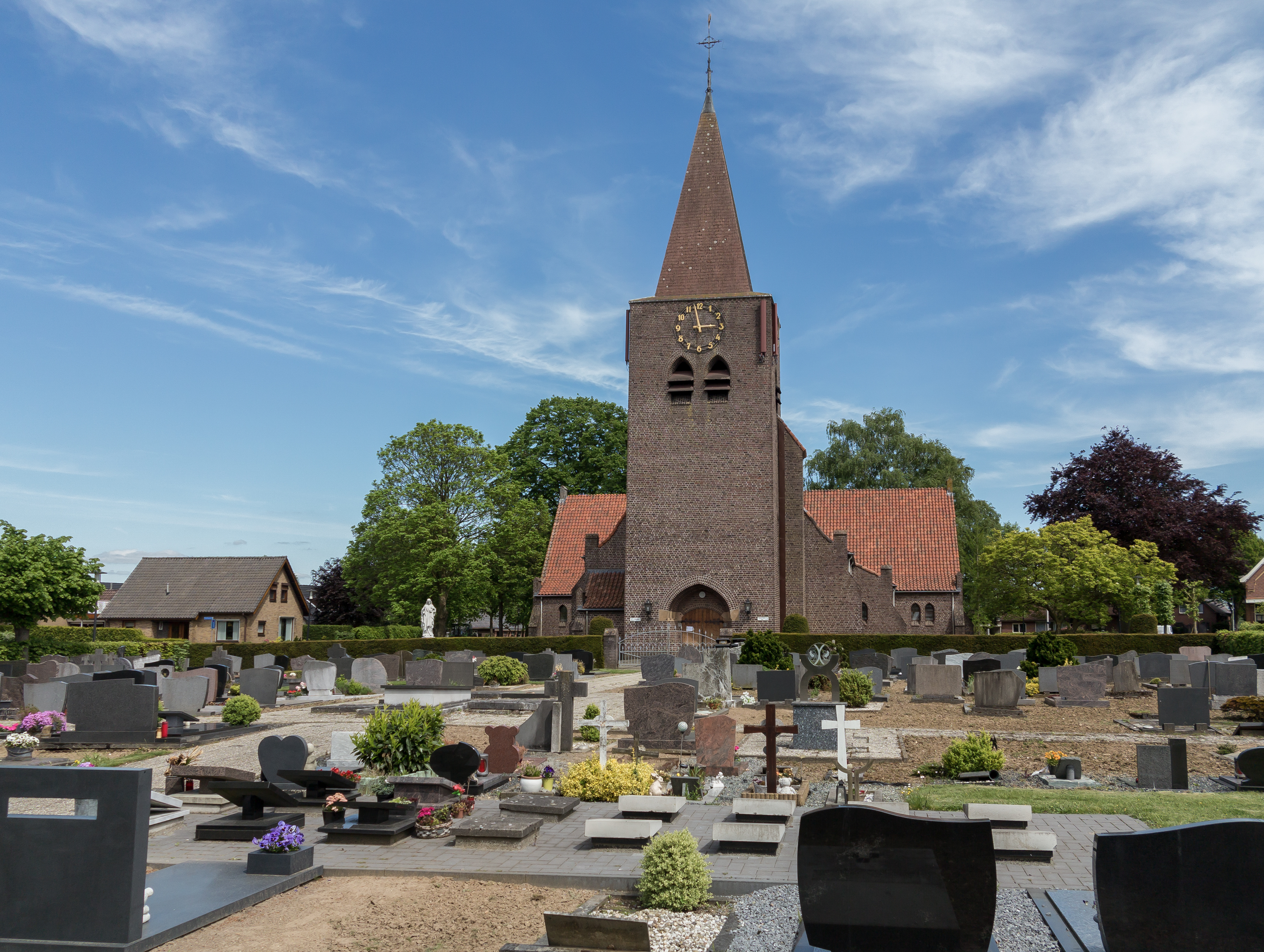 Megchelen, church: de Sint Martinuskerk